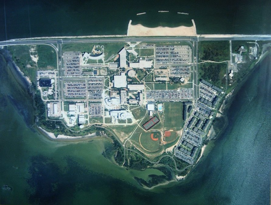 Ward Island Texas in 2002